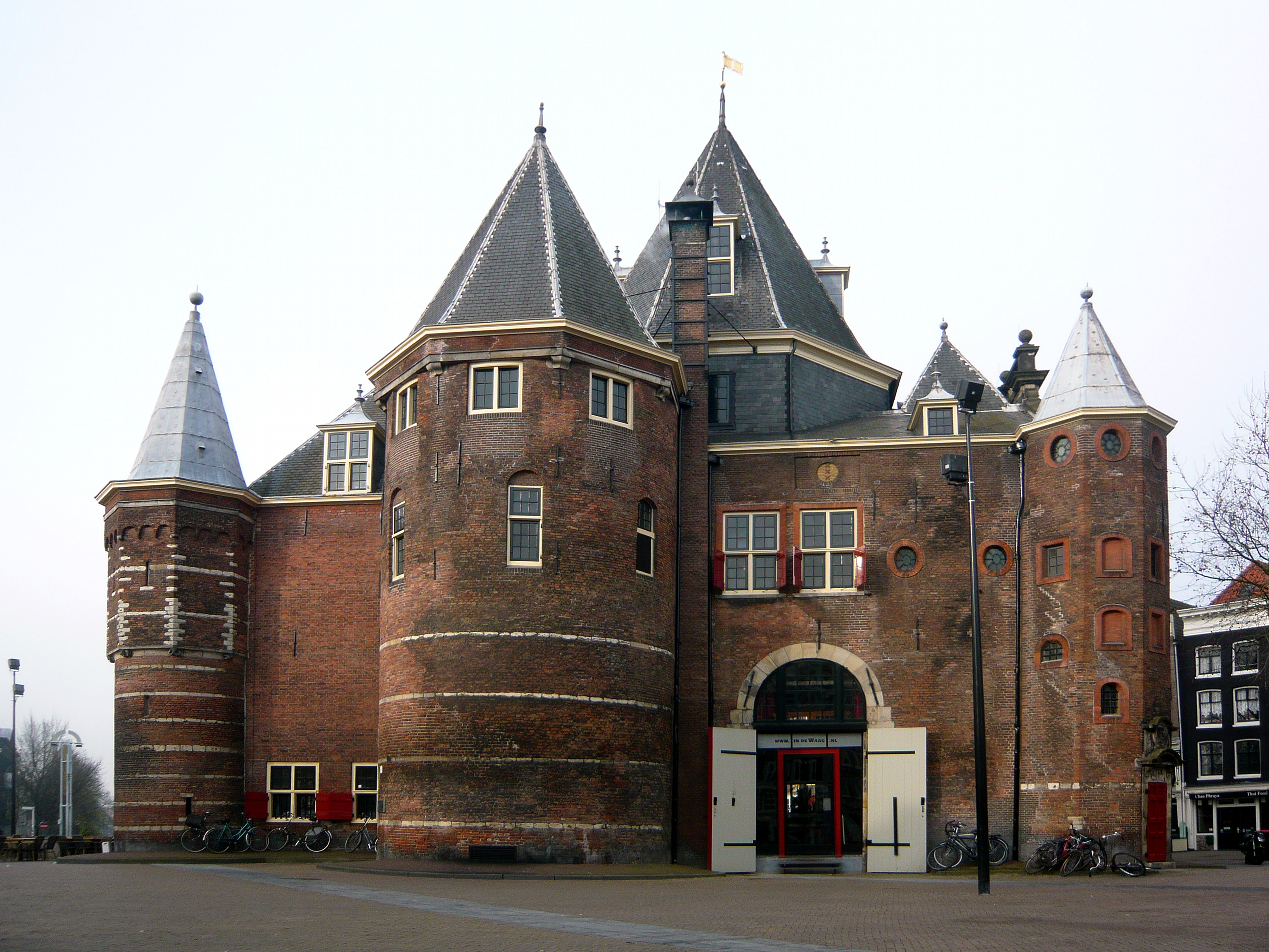 Waag, Amsterdam, Netherlands